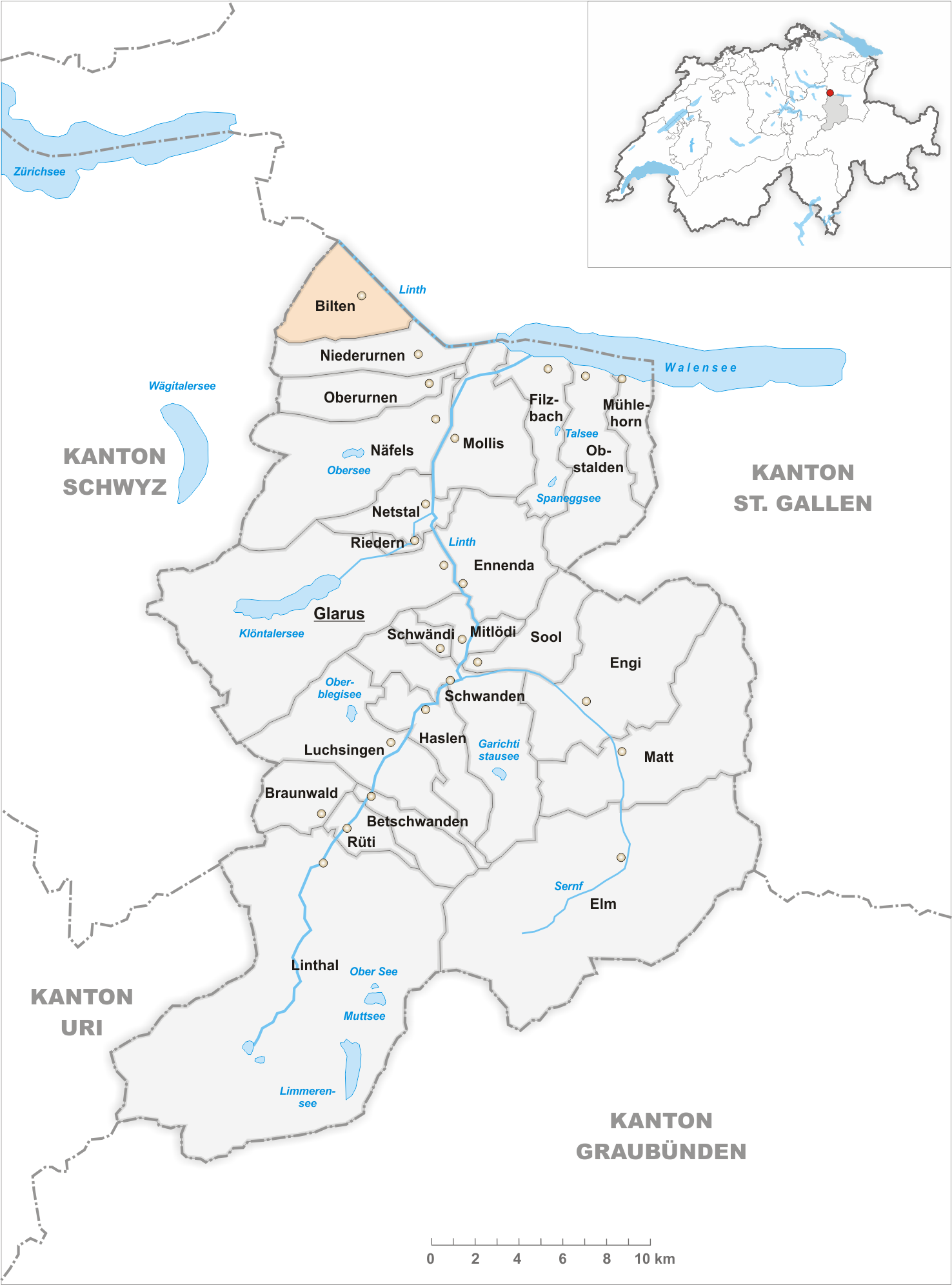 Municipality Bilten